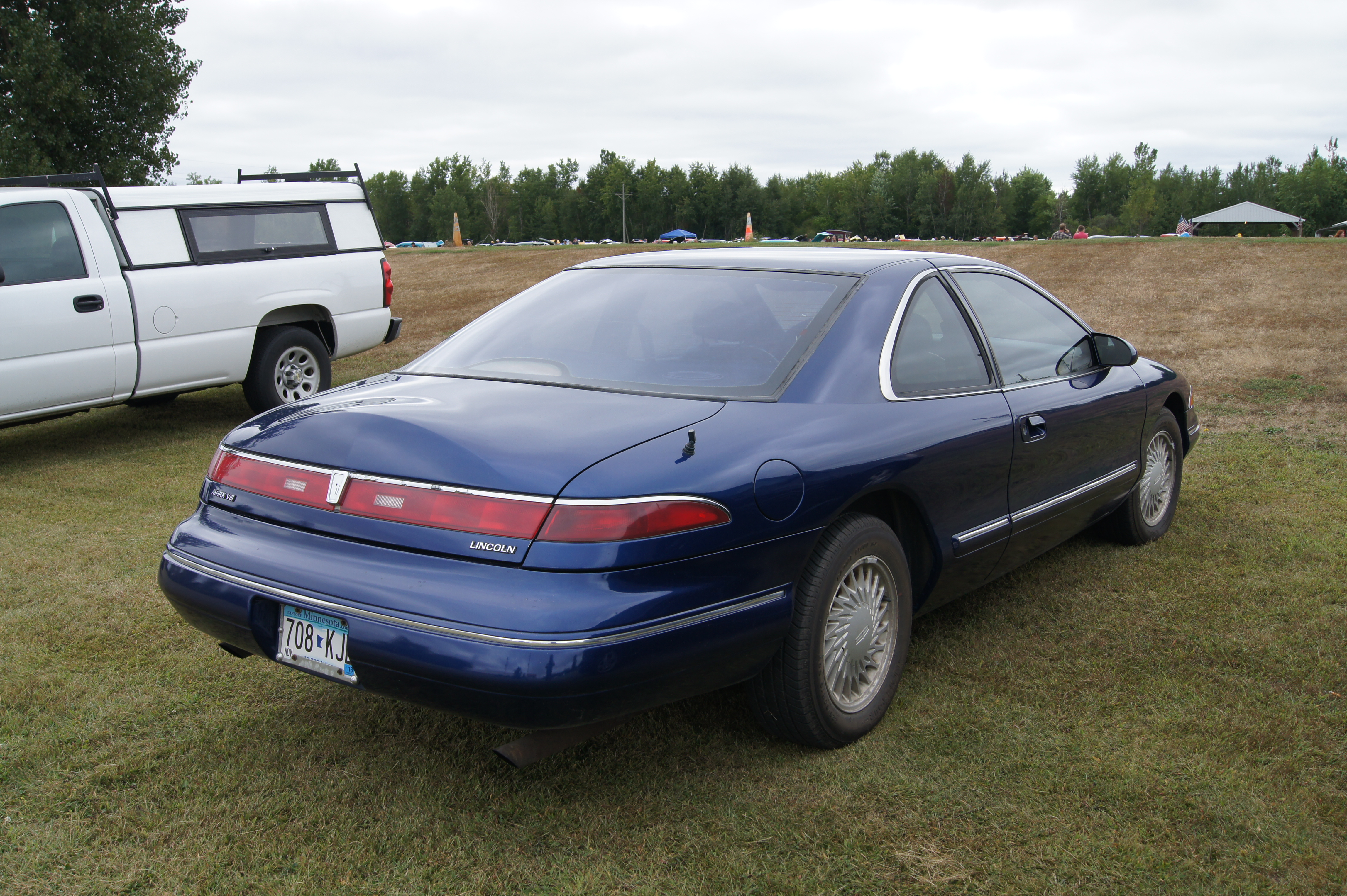 North Star Chapter Studebaker Drivers Club 13th Annual Labor Day Car Show September 2, 2013 Blacksmith Lounge Hugo, MN